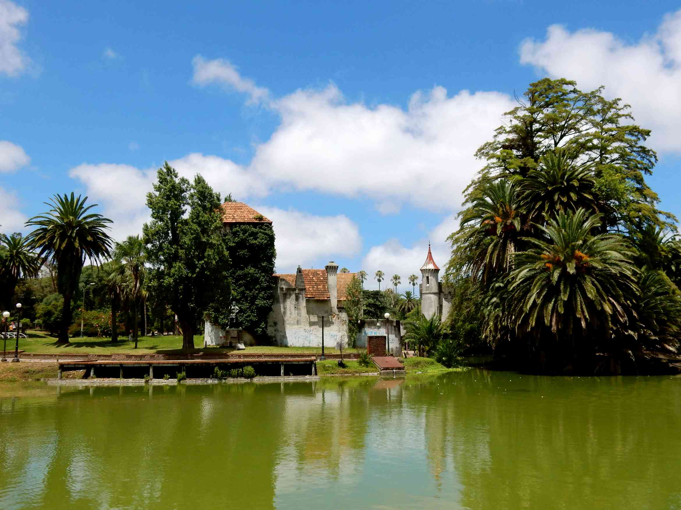 Today the castle in the "Parque Rodo" is a library for kids. Das Castillo im Parque Rodo ist heute eine Kinderbücherei. You're welcome to use this picture free of charge, as long as you follow the license terms. As a matter of courtesy a link (dofollow links are welcome!) to is much appreciated. Thank you! ————————–—–—–—–—–—–—–—–—–—–—–—–—–—–—– Du kannst dieses Bild gemäß der Lizenzbestimmungen unentgeltlich nutzen. Über eine Verlinkung (dofollow am liebsten) auf freuen wir uns. Danke!